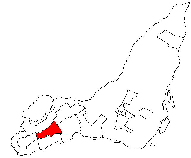 Map of Kirkland on the Isle of Montreal